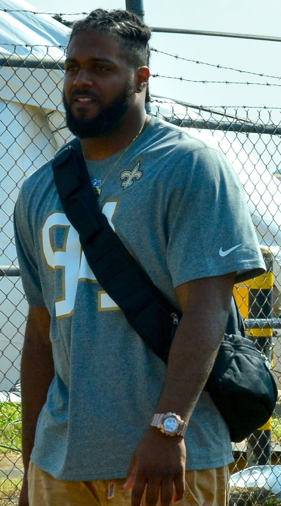 Cameron Jordan enters the 2016 Pro Bowl Draft show at Wheeler Army Airfield, Hawaii, Jan. 27.